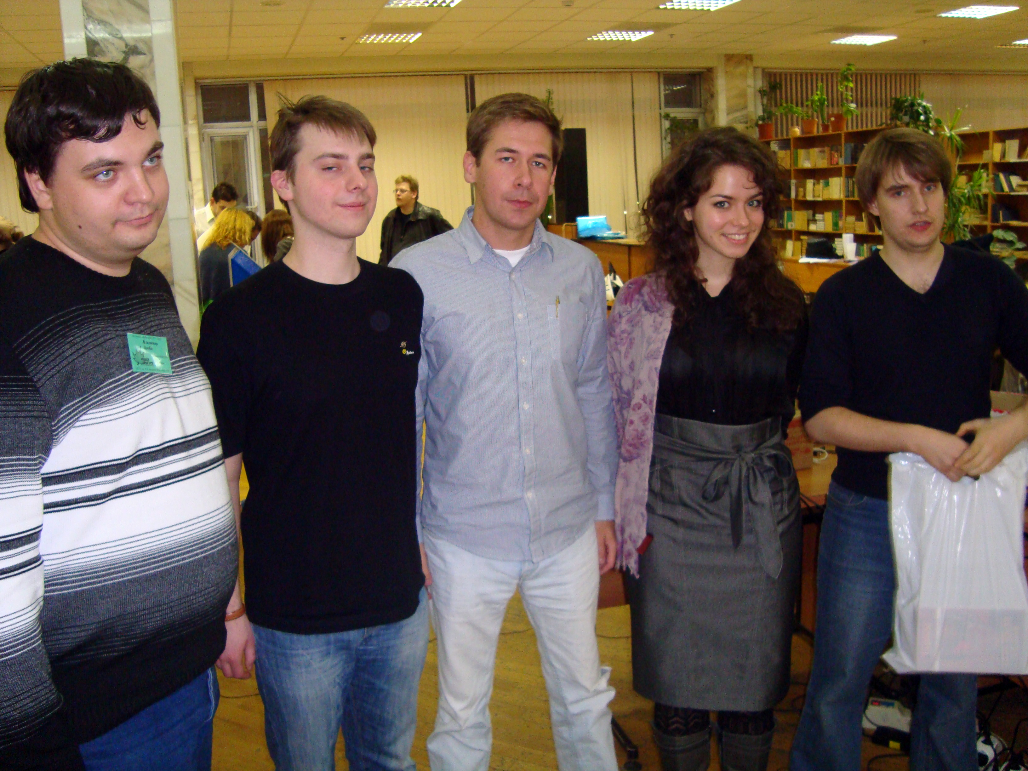 "Viktoronopko" What? Where? When? team during the vMoGoTu Cup at Bauman University, 30 October 2010. From left to right: Vladimir Dzyuba, Evgeny Krylov, Ilya Novikov, Anastasia Shutova, Nikolay Krapil'.